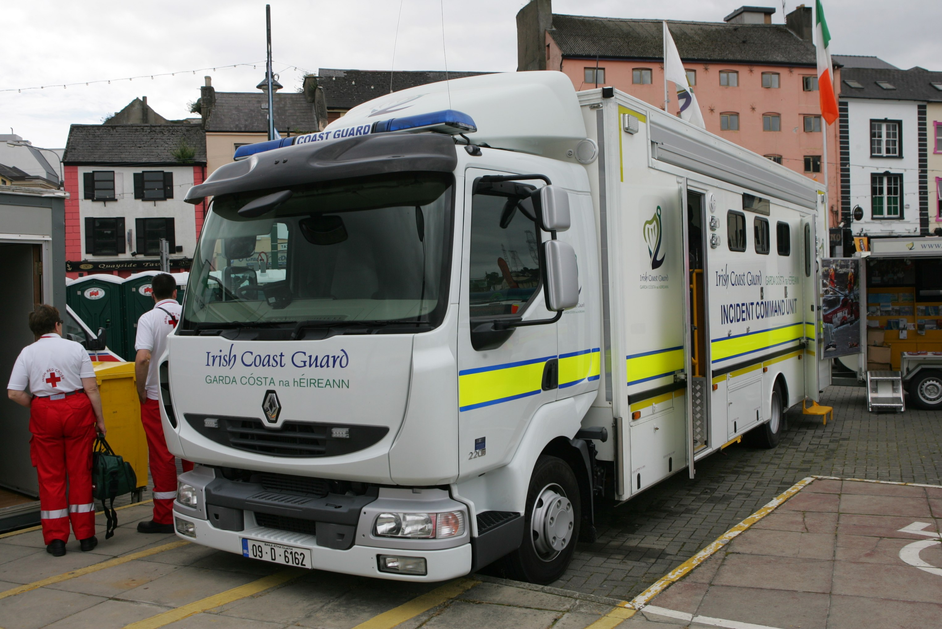 Irish Coast Guard Incident Command unit 09D6162 Renault